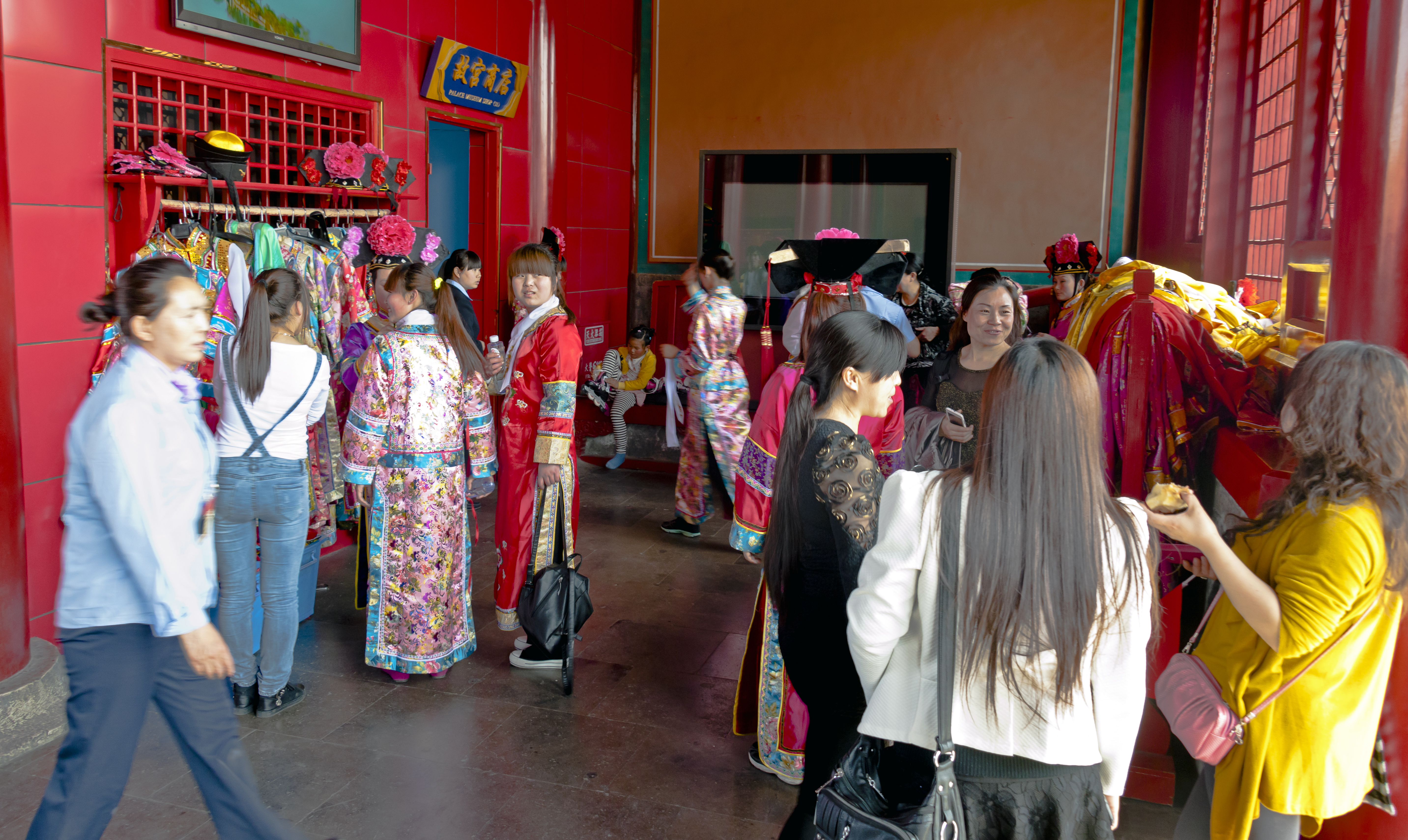 Tourists (mostly Chinese) getting in costumes for videos at the Forbidden City